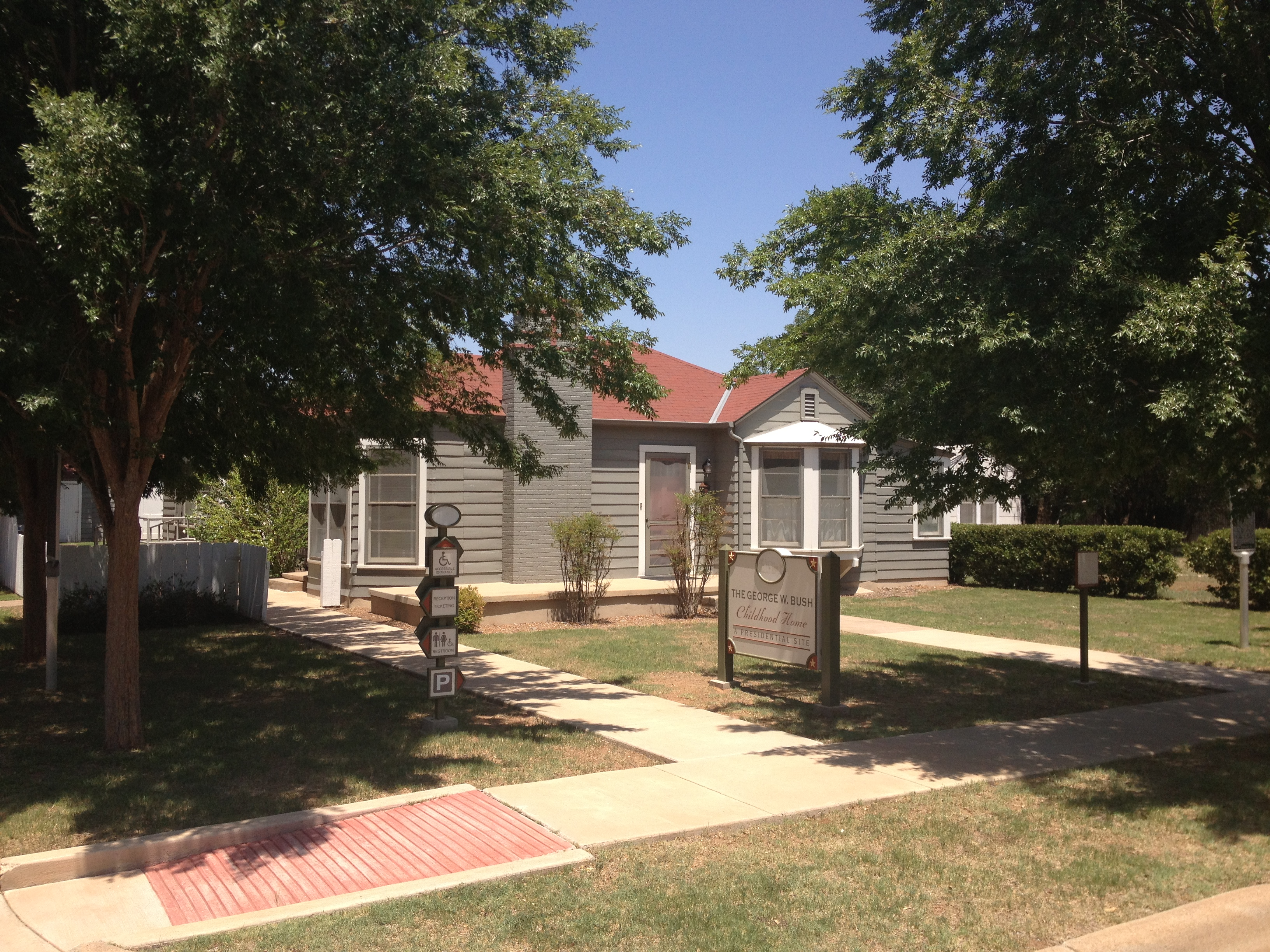 George W. Bush Childhood Home